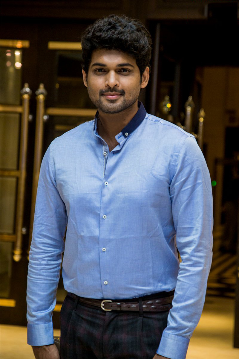 Ajmal Ameer at Launch of Provoke Lifestyle Magazine